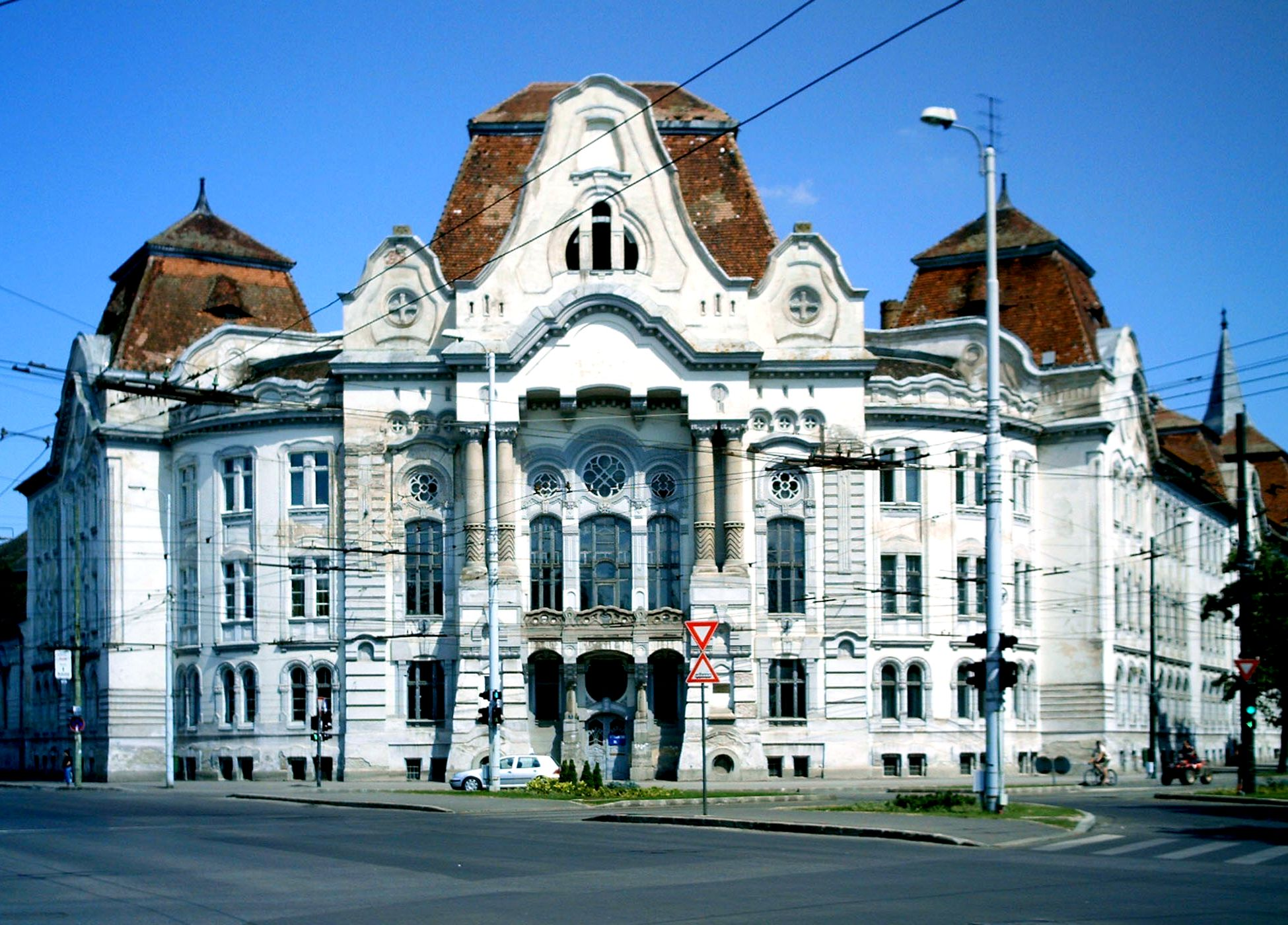 "Piarist High School" in Timisoara, România